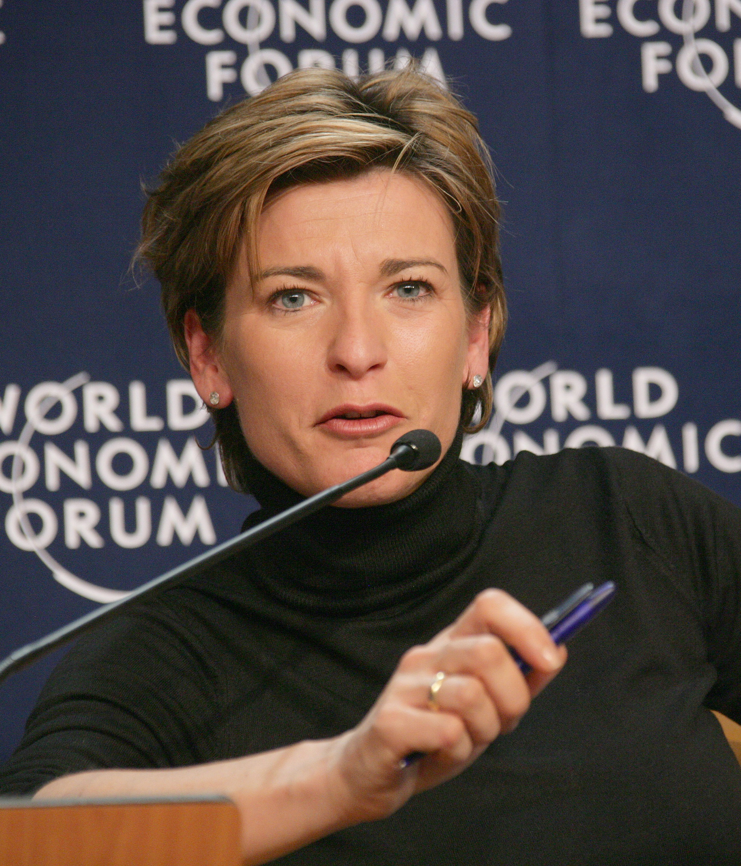 DAVOS/SWITZERLAND, 27JAN06 - Rebecca Anderson, Anchor, CNN International, United Kingdom captured during the session 'Next Steps for Africa' at the Annual Meeting 2006 of the World Economic Forum in Davos, Switzerland, January 27, 2006. Copyright by World Economic Forum by E.T. Studhalter